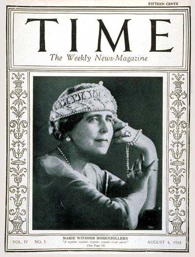 TIME Magazine Cover Featuring Marie of Romania (4 Aug 1924)